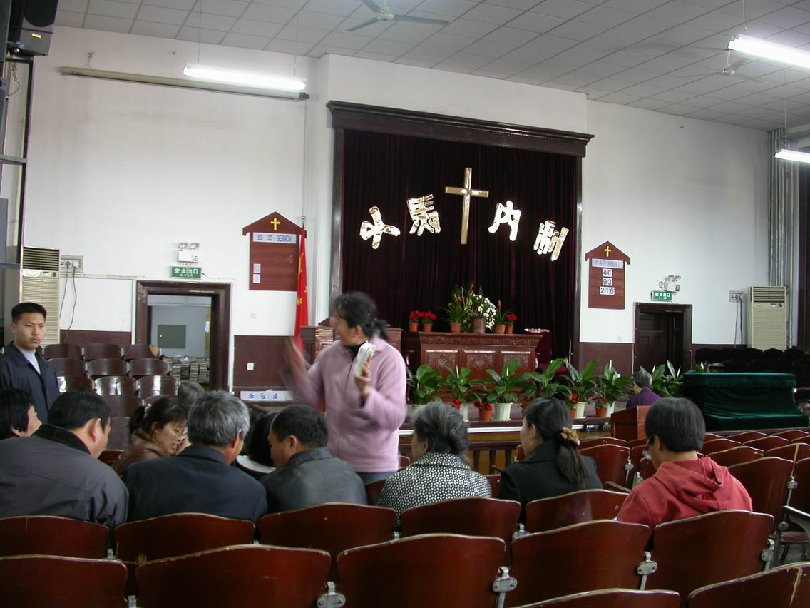 Gangwashi Church is the largest one in Beijing now. Here is a volunteer, who is teaching knowledge of The Bible for Christians